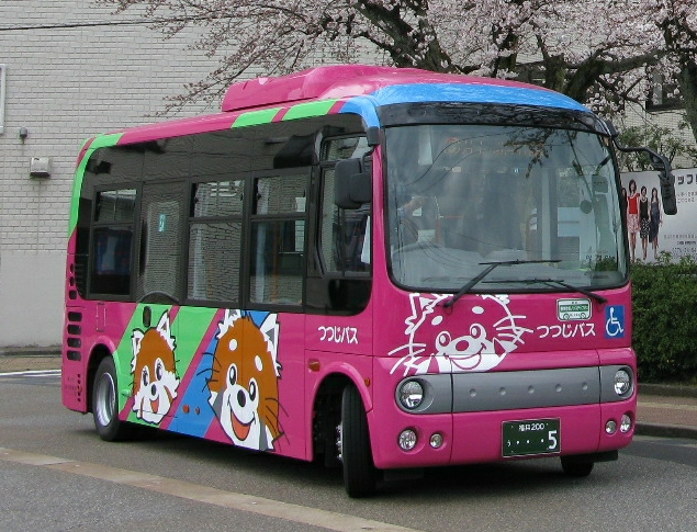 The Community Bus "Tsutsuji Bus"(Sabae City,Fukui Pref.,Japan). This photo is taken from Shinmei station(Fukui-Railway's station).